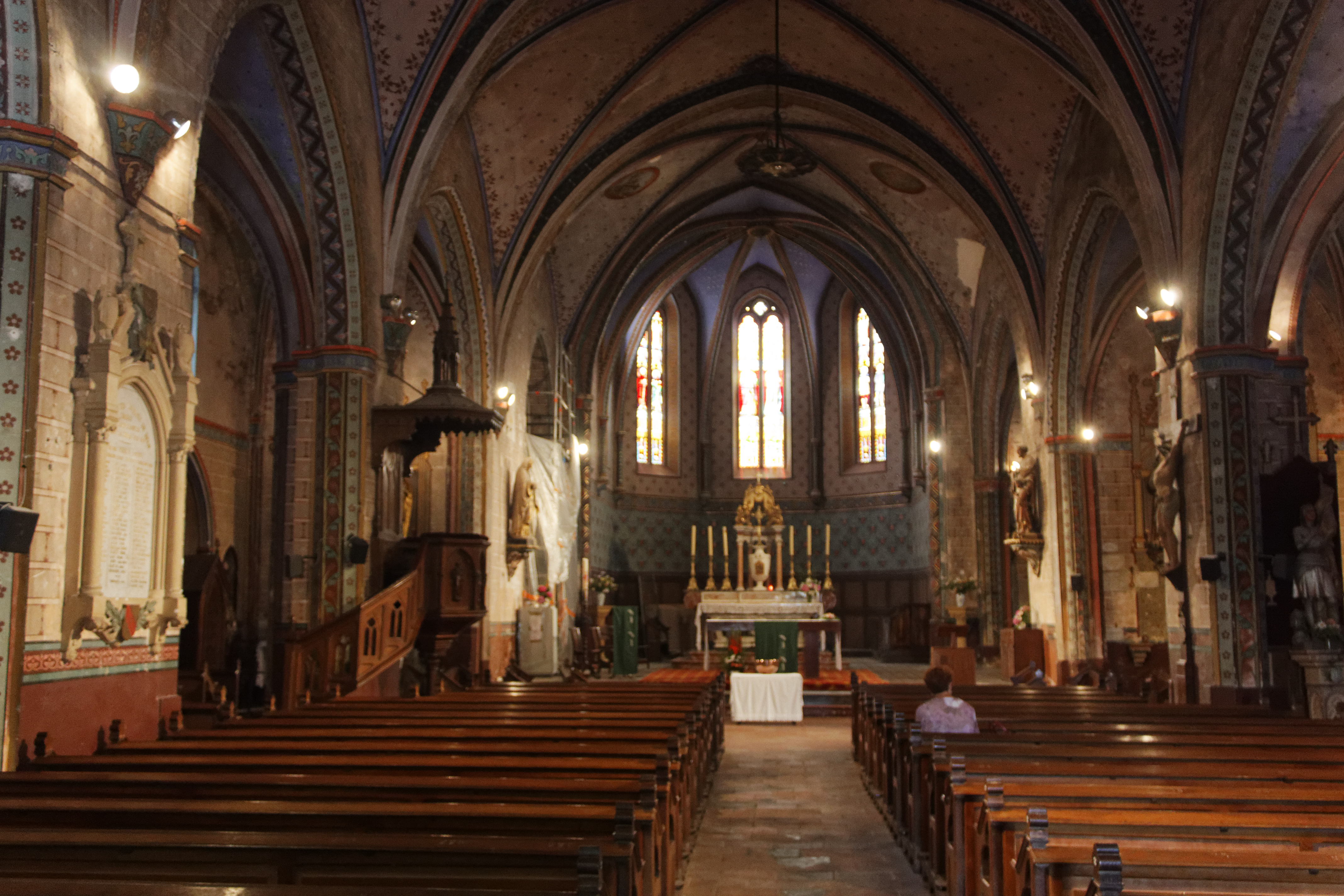 The nave of the church of bram.